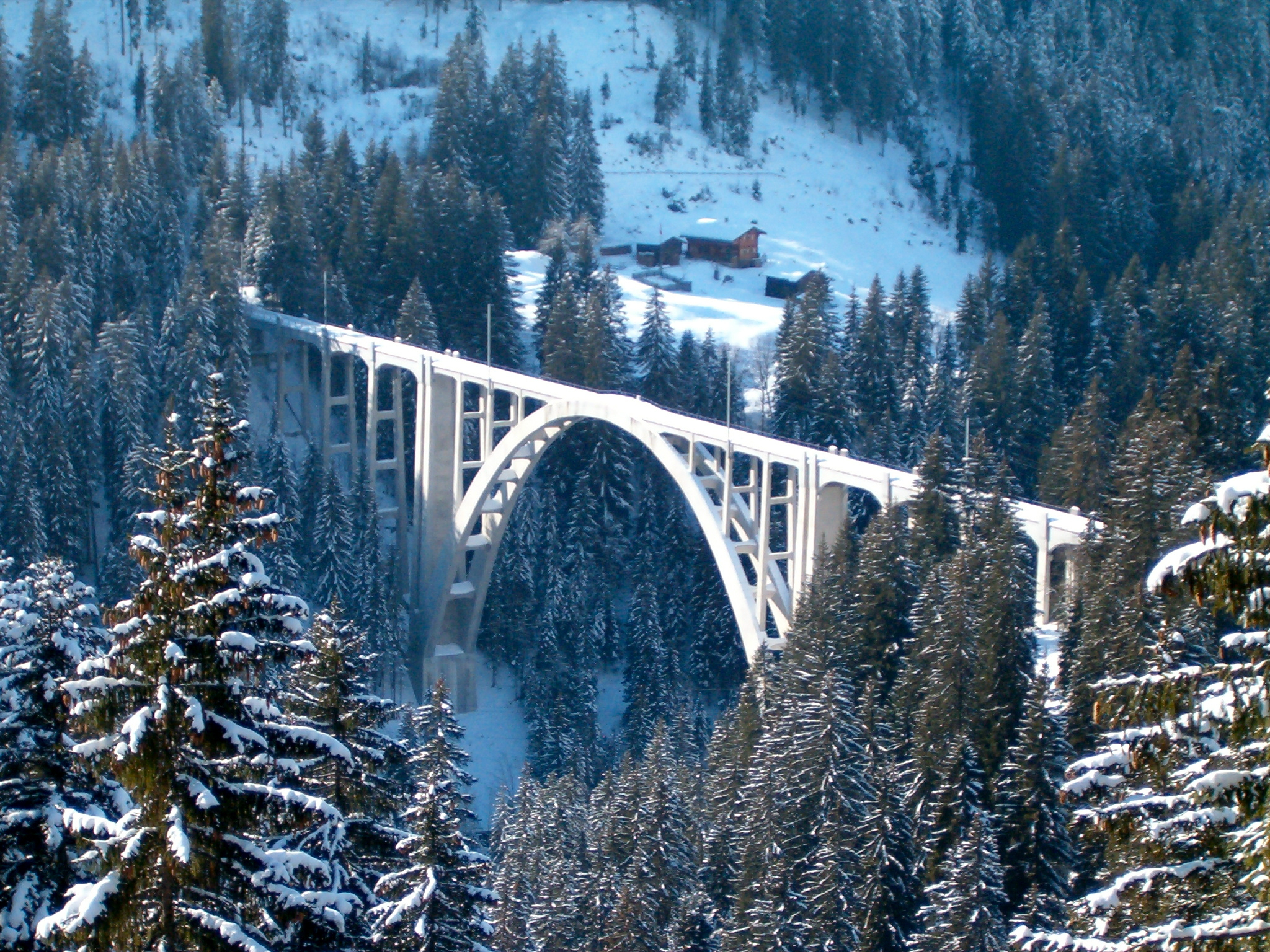 Langwieser Bridge from south-east